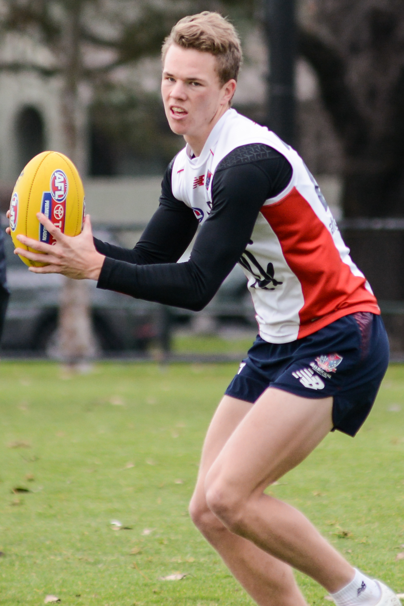 Jayden Hunt at training during July 2015